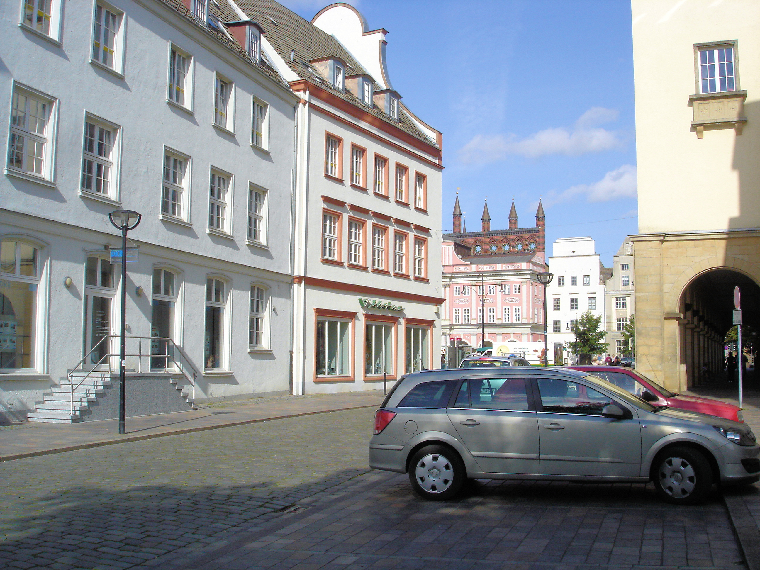 Street in the historic city of Rostock